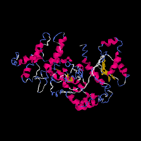 The proposed tertiary structure of KIAA0895 from I-TASSER.